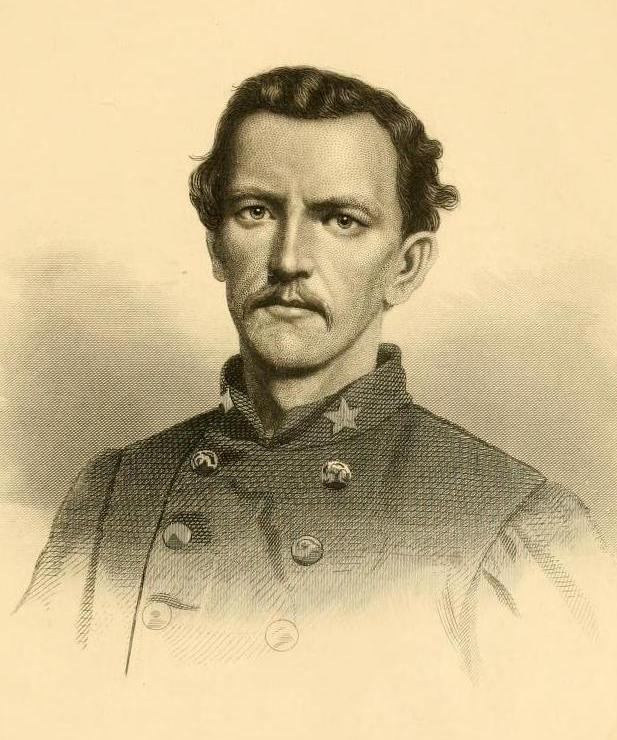 Major Garland was promoted to lieutenant colonel on May 16, 1863, and to colonel and commander of the 1st Missouri Infantry on May 30, 1864.